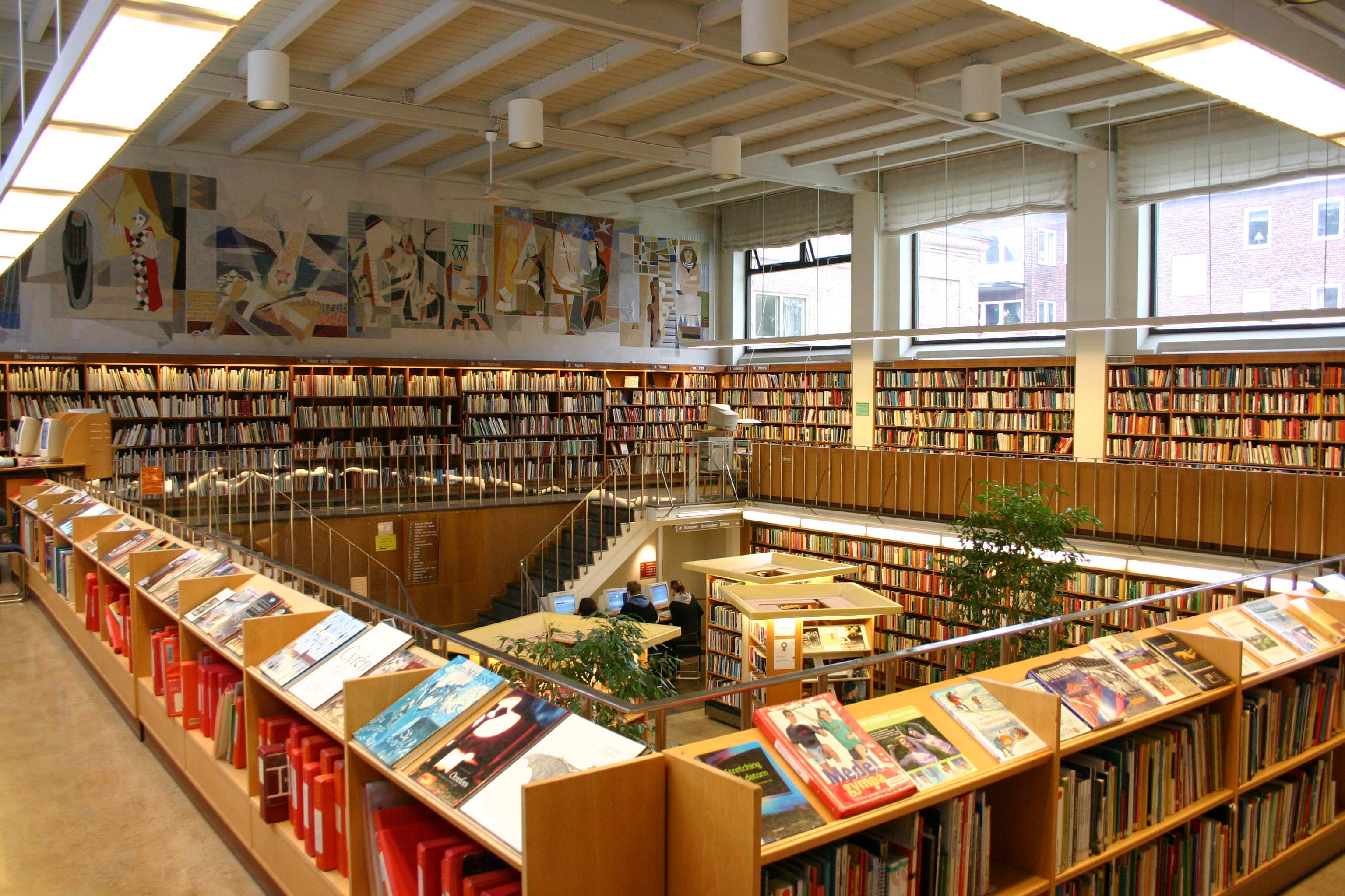 The previous city library of Halmstad, Sweden.